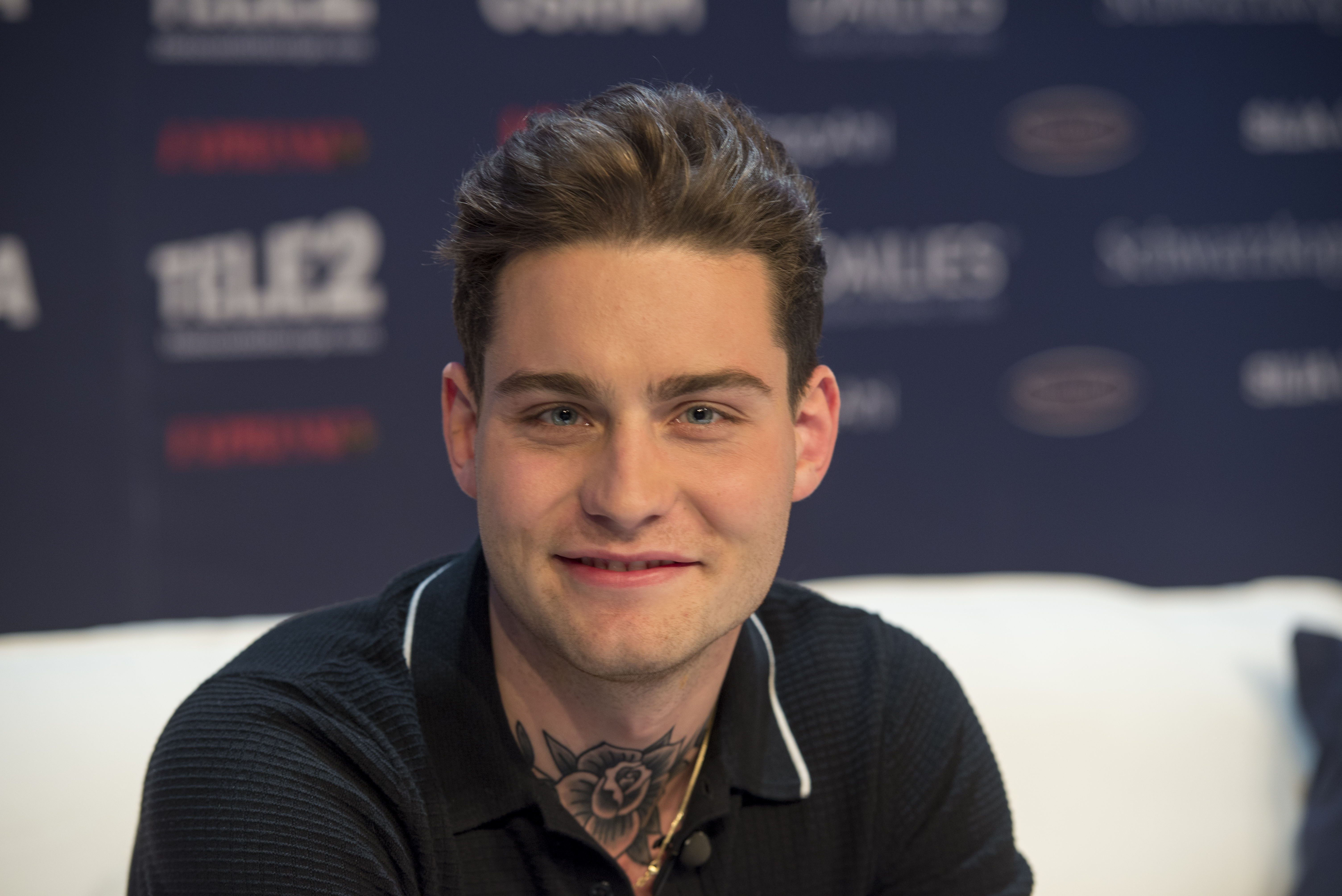 Douwe Bob at a Meet & Greet during the Eurovision Song Contest 2016 in Stockholm. (Help translate this text)